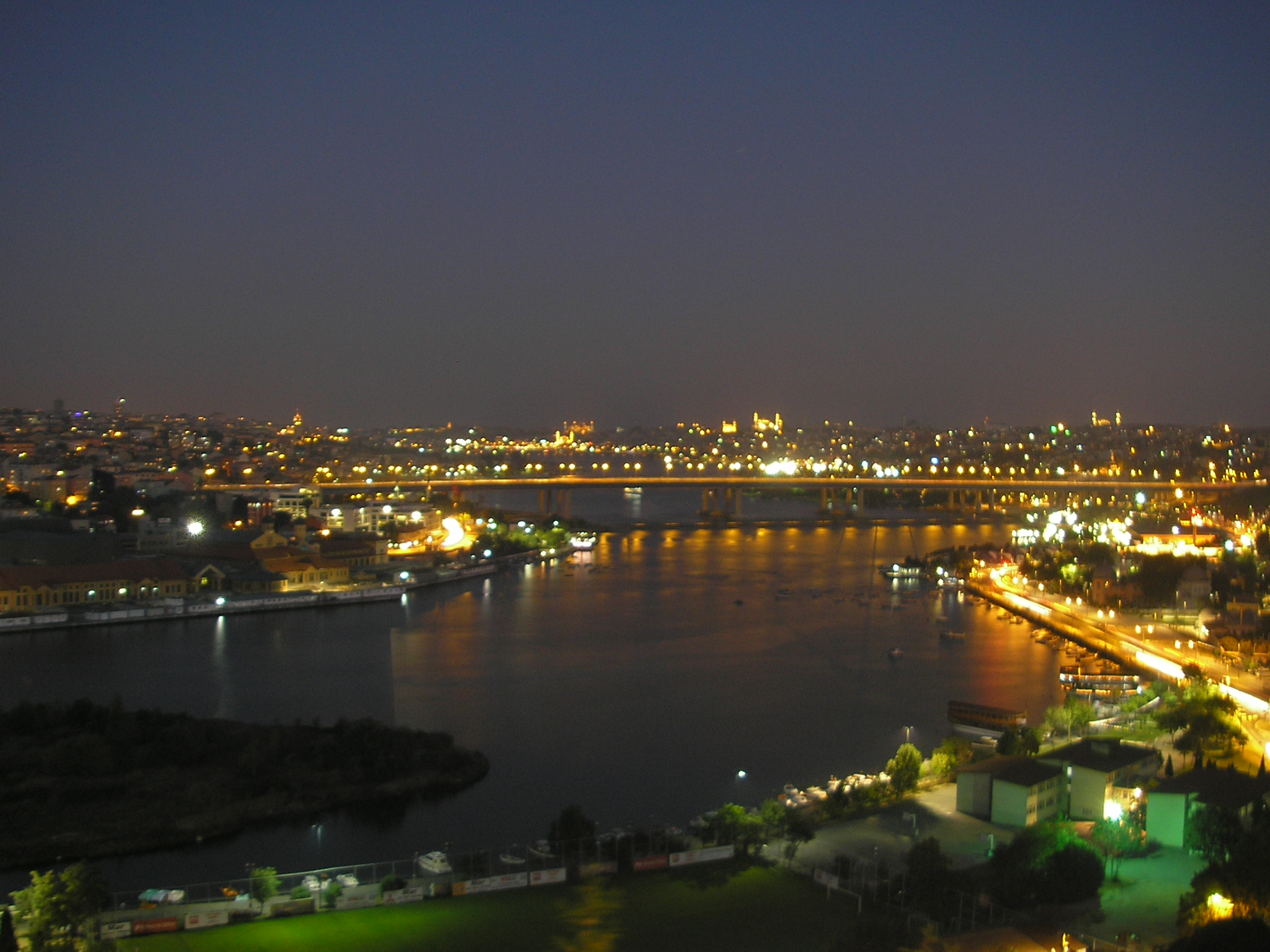 View onto the Golden Horn and Istanbul, seen from the Pierre Loti Café.